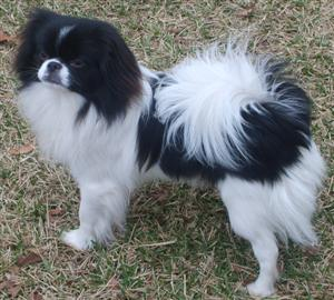 Male Japanese Chin from